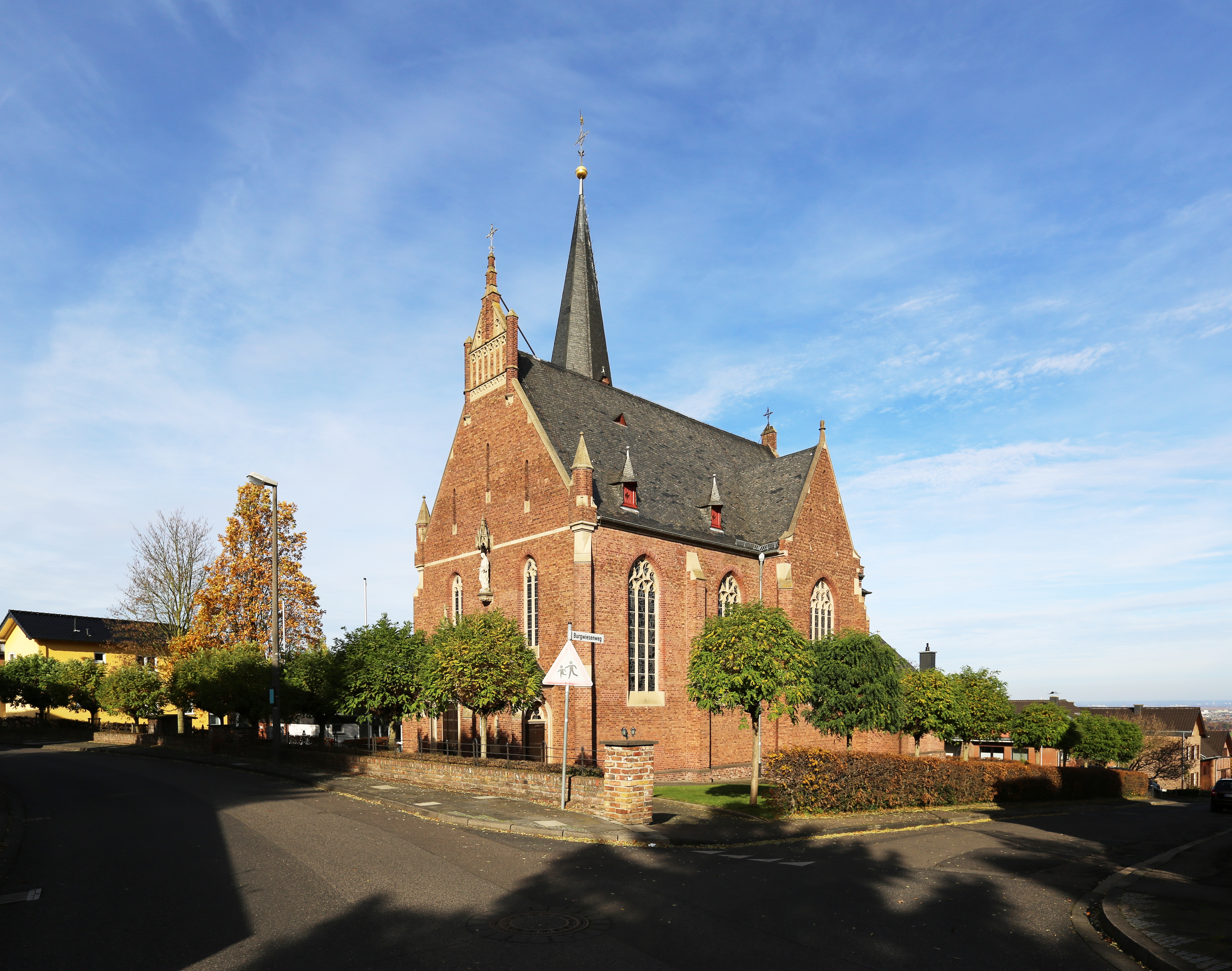 Saint Ägidius (1897), Hemmerich, Germany